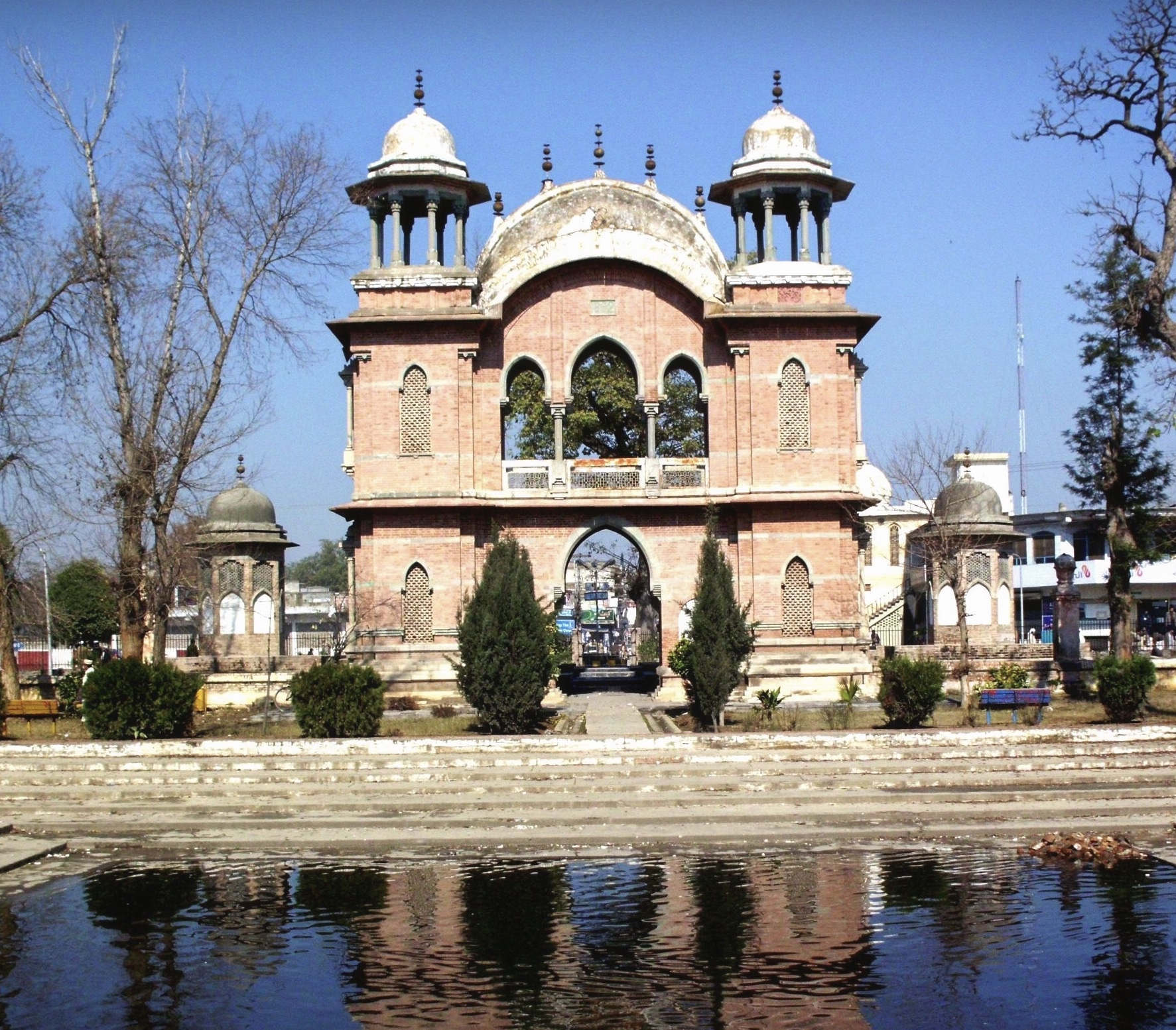 Guides Memorial at Mardan Cantt Picture uploaded by Adil Shah taken: 15 feb,2011